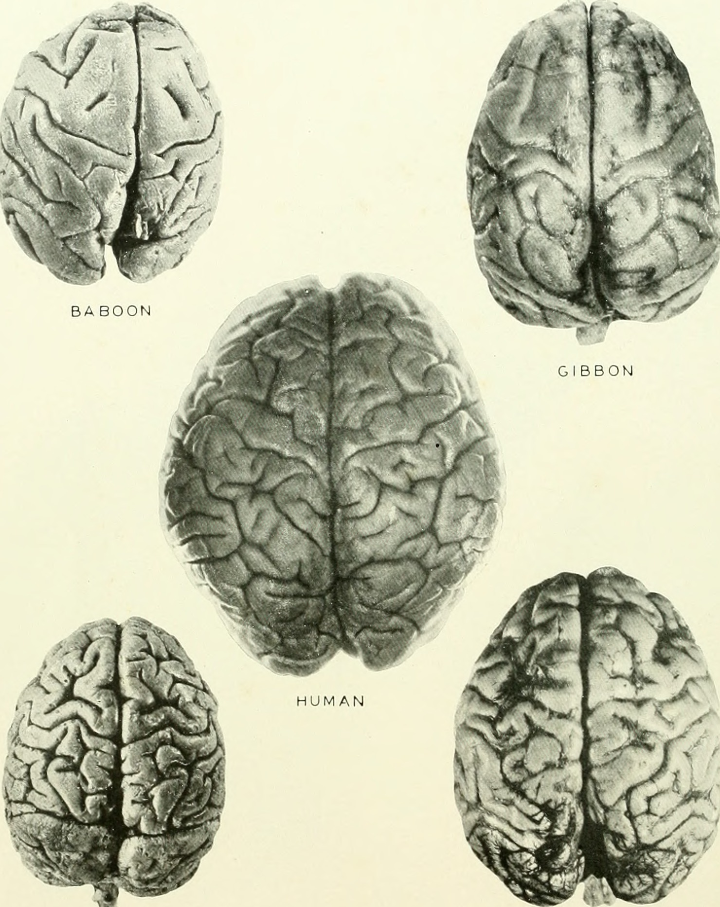 Title: The brain from ape to man; a contribution to the study of the evolution and development of the human brain Year: 1928 (1920s) Authors: Tilney, Frederick, 1875-1938; Riley, Henry Alsop, 1887- Subjects: Brain; Evolution; Pongidae Publisher: New York, P. B. Hoeber, inc. Text Appearing Before Image: ' Text Appearing After Image: CHIMPANZEE GORILLA FIG. 3. BRAINS OF APES COMPARED WITH THE HUMAN BRAIN. (6)